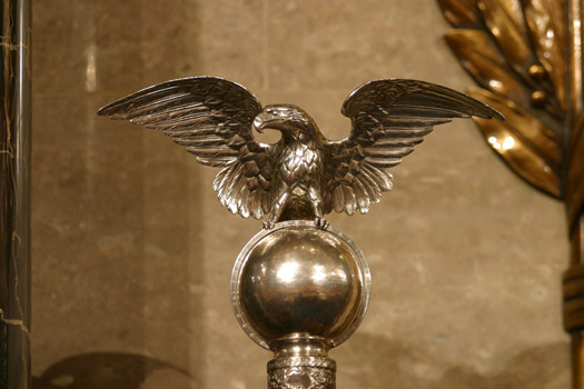 A detailed look at the eagle and globe atop the US House Mace, one of the oldest and most important symbols of United States government . The shaft is surmounted by a silver globe, 4 ½ inches in diameter, which is engraved with the seven continents, the names of the oceans, lines of longitude and major lines of latitude. The Western hemisphere faces front. The globe is encircled with a silver band marked with the degrees of latitude, on which is perched an engraved solid silver eagle with a wingspan of 15 inches.